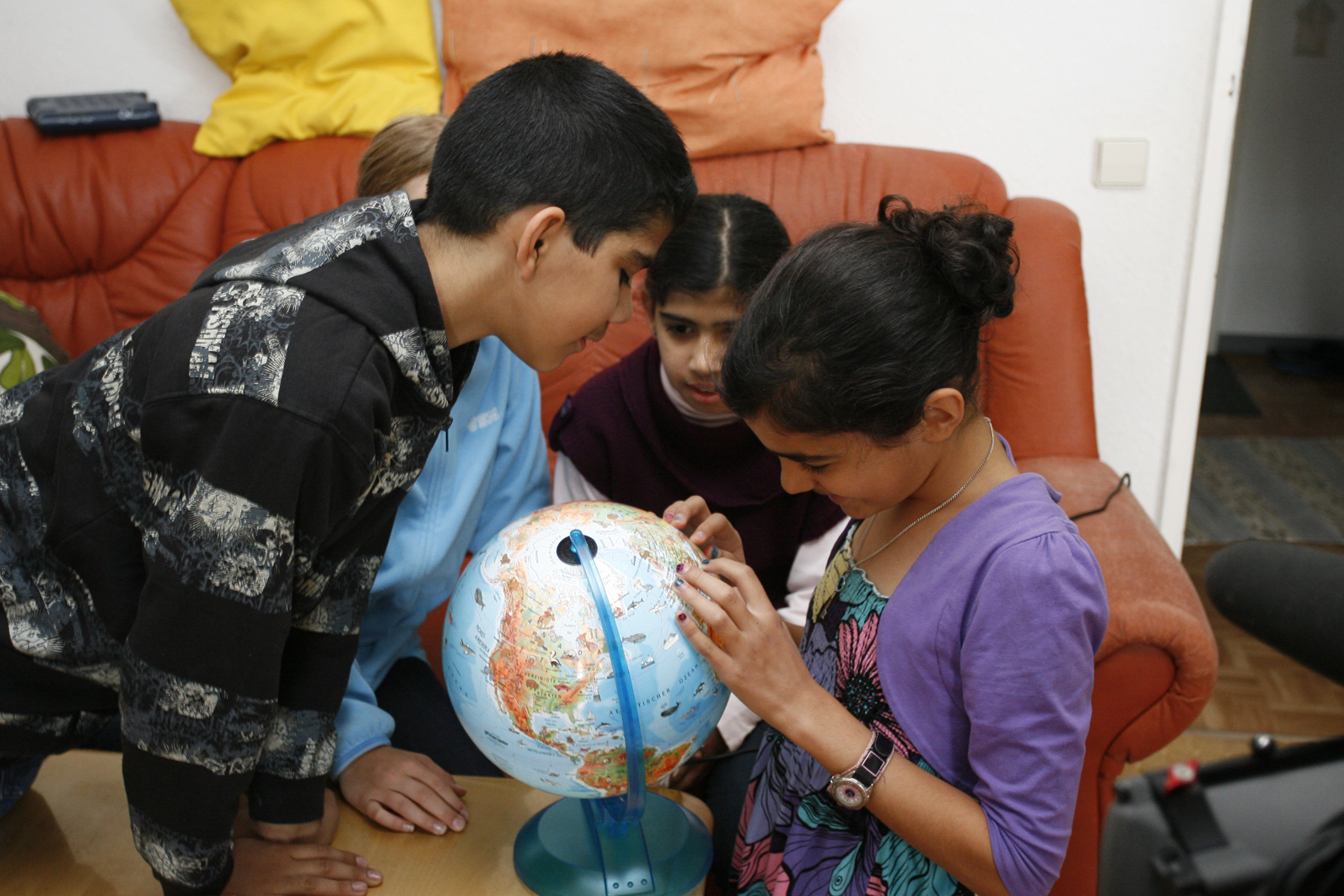 Children were discovering the vast number ofcountries on a globe, while they were spending the day in a syrian family..